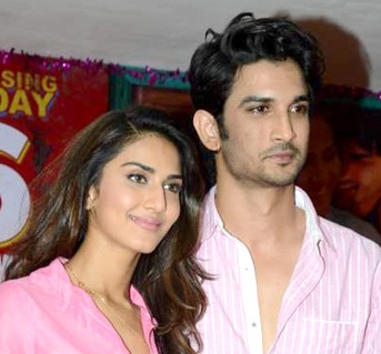 Vaani Kapoor and Sushant Singh Rajput launching SHUDDH DESI ROMANCE's song Gulaabi